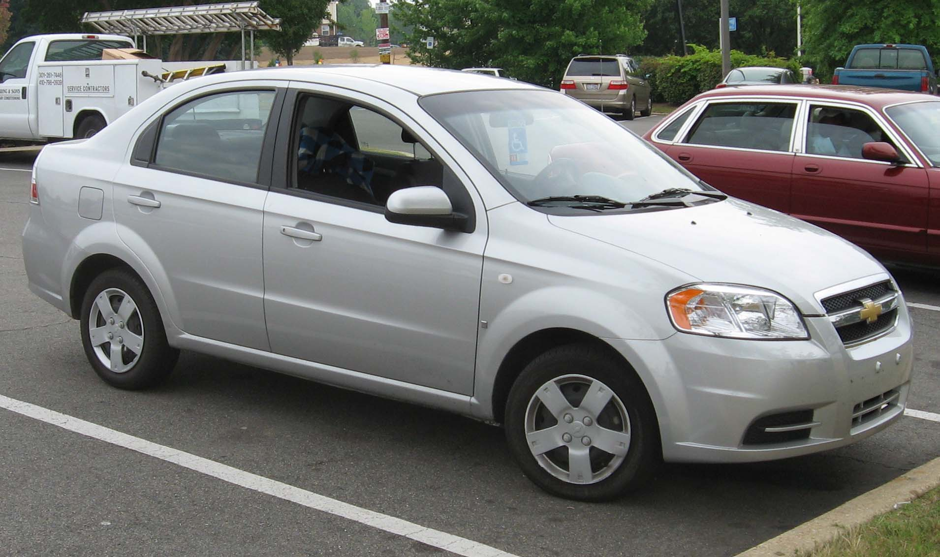 2007 Chevrolet Aveo photographed in USA.